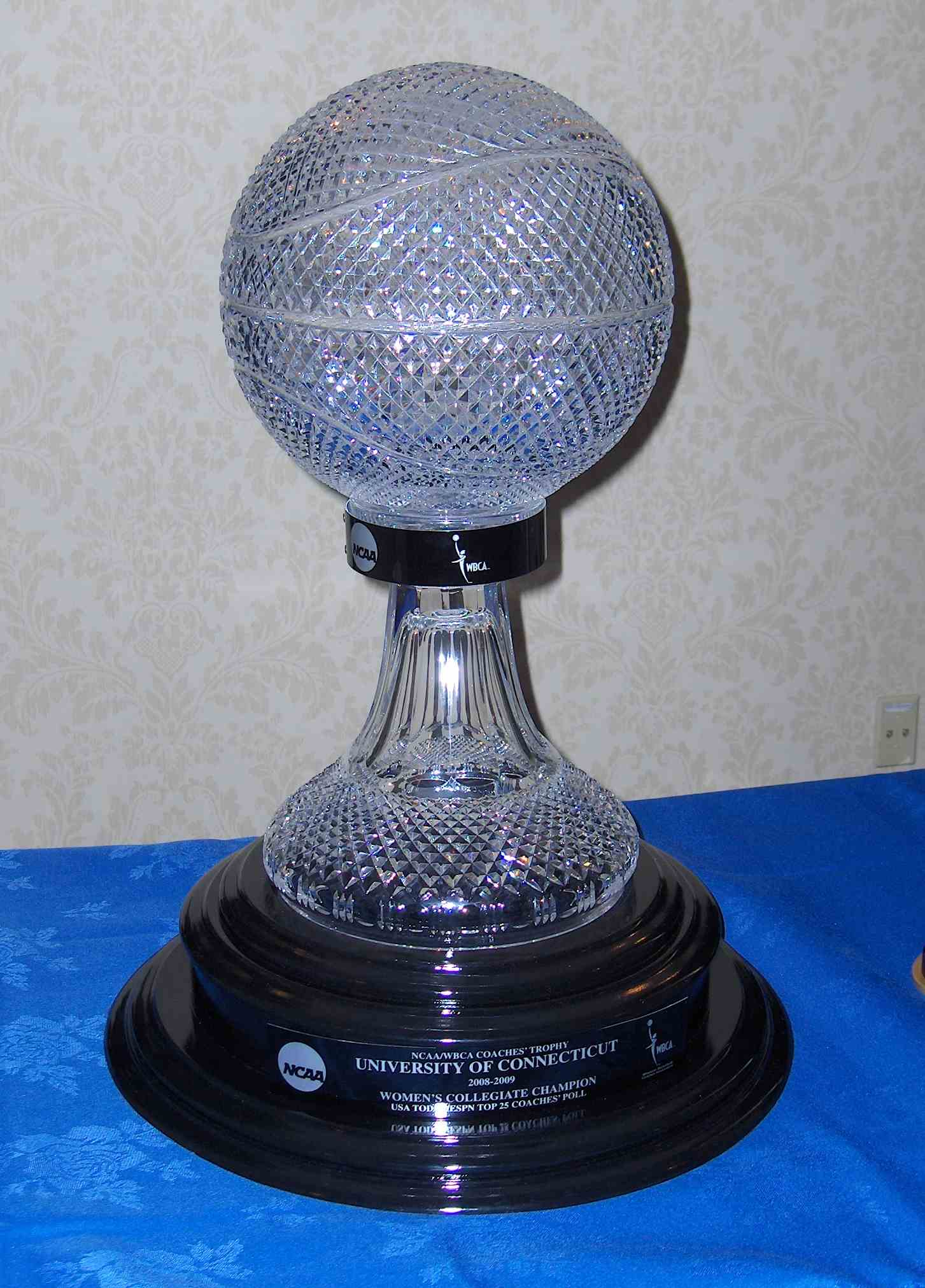 The Coaches' Trophy is presented by the Women's Basketball Coaches Association (WBCA) and awarded to the NCAA Division I women's basketball team that finishes first in the USA TODAY ESPN Division I Top 25 Coaches' Poll.